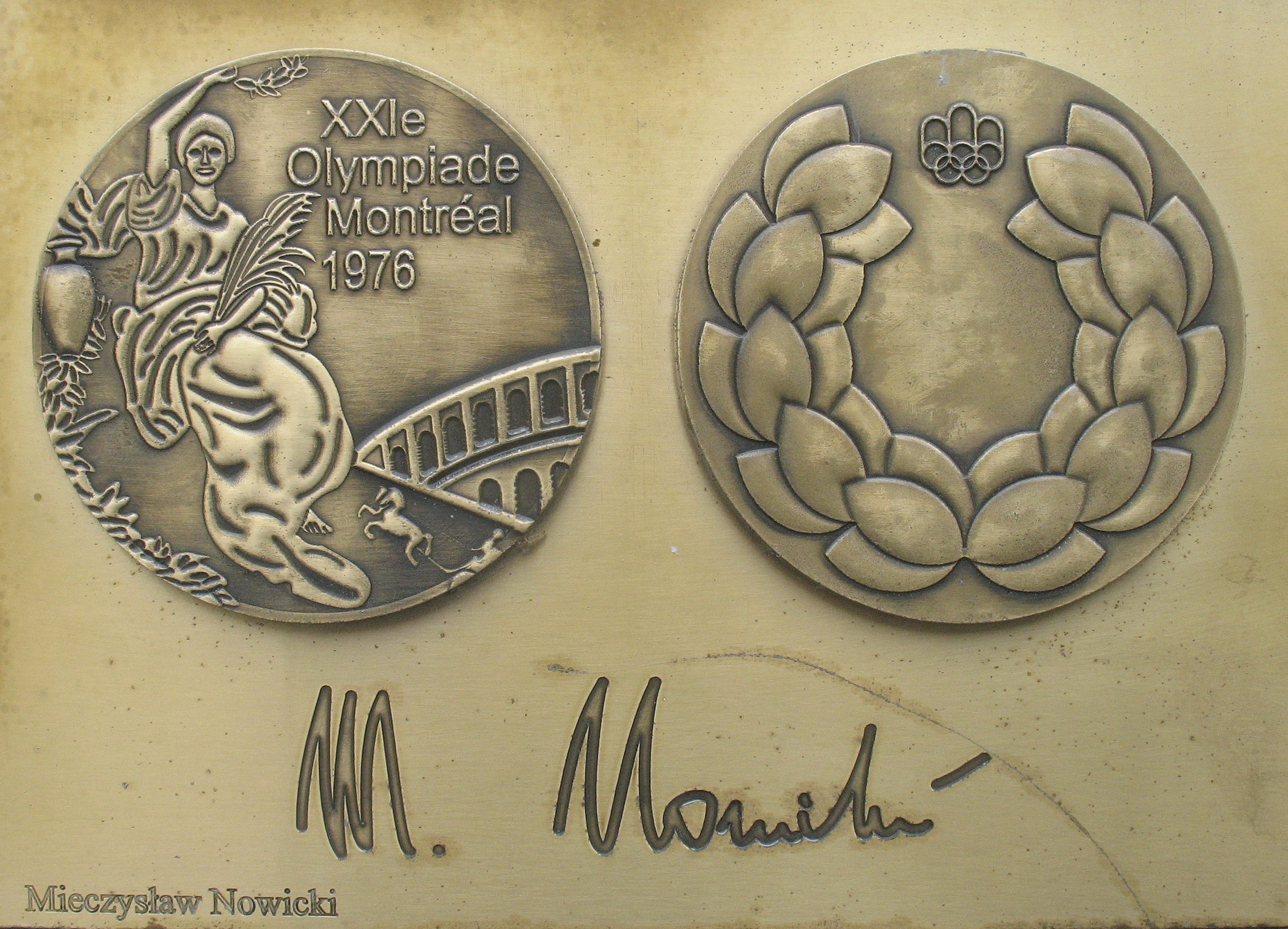 Mieczyslaw Nowicki medal & autograph in Avenue of Sport Stars Dziwnów